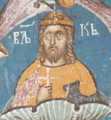 Detail of fresco Loza Nemanjića,Vukan,Visoki Dečani,Serbia.